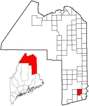 Adapted from U.S. Census Bureau maps (American FactFinder) and Wikipedia's ME county maps by Bumm13.